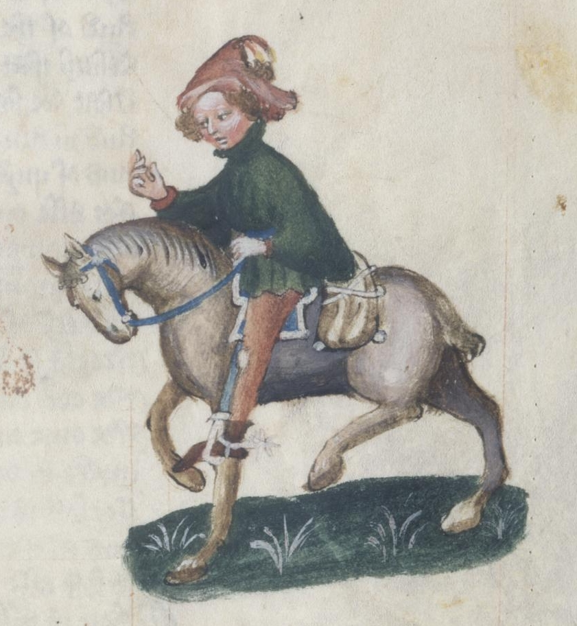 The Canon's Yeoman in the Ellesmere manuscript of Geoffrey Chaucer's Canterbury Tales.